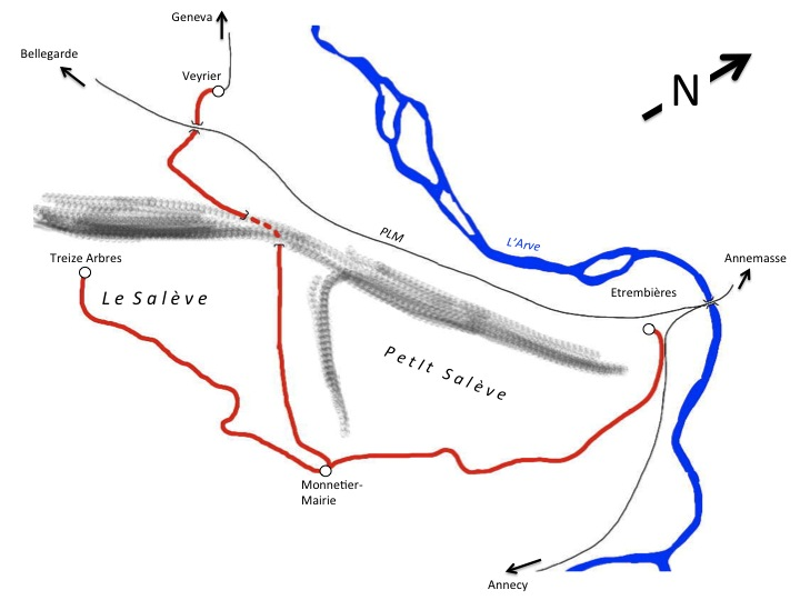 Map of lines of Chenin de Fer du Salève